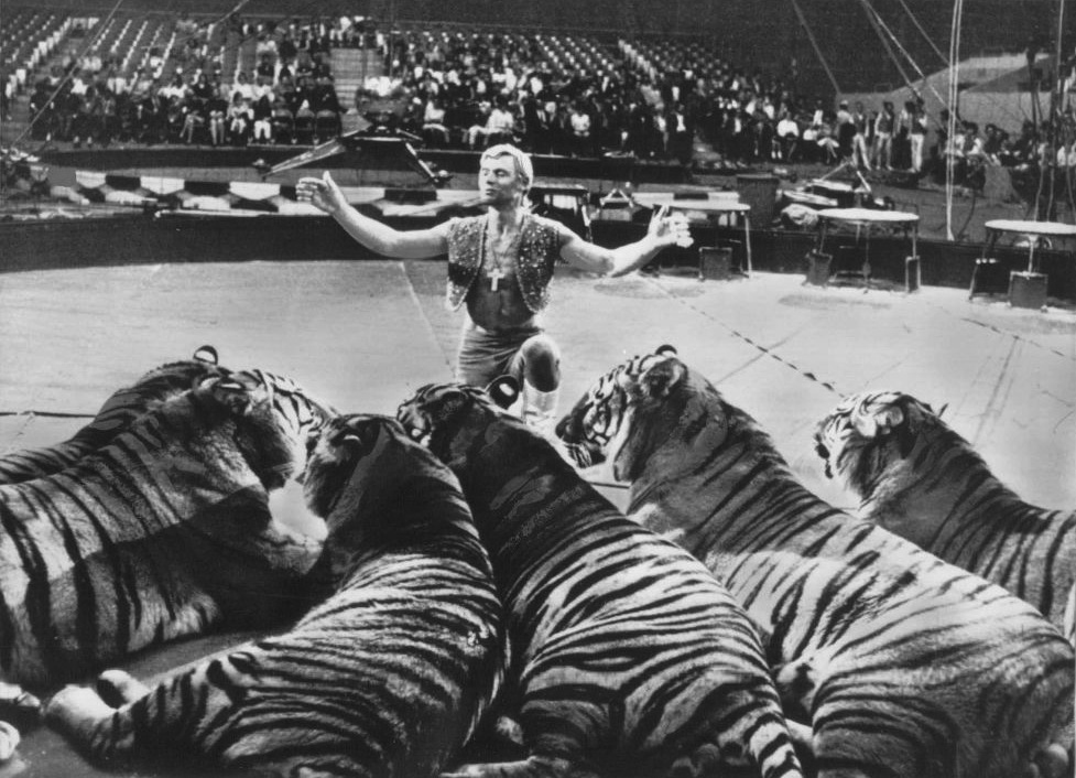 Publicity photo of animal trainer Gunther Gebel-Williams with several of his trained tigers, promoting him as "superstar" of the Ringling Bros. and Barnum & Bailey Circus, circa 1969.